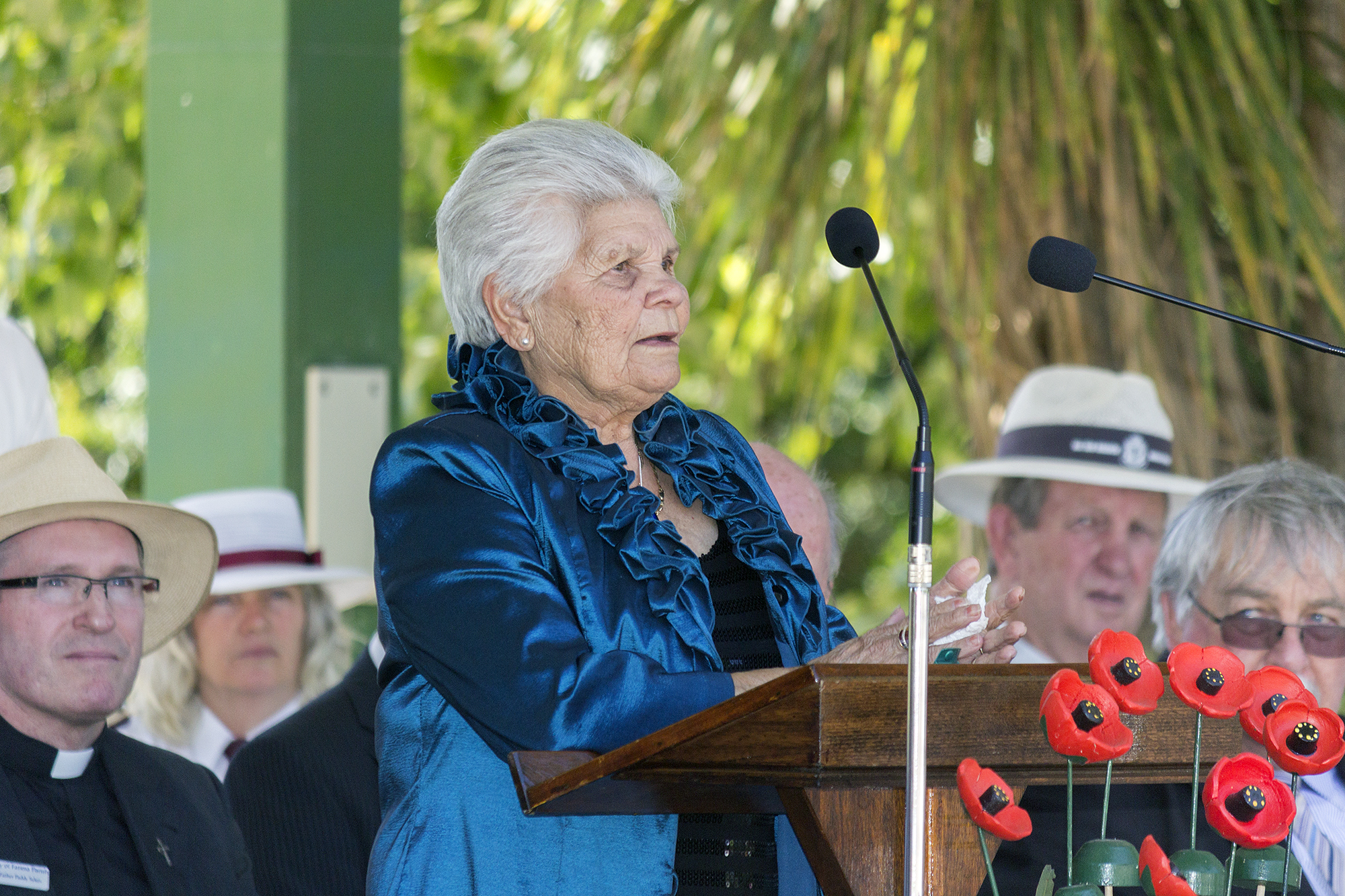 Wiradjuri Elder, Aunty Isobel Reid, giving the Welcome to Country at the Centenary of the Kangaroo March launch.